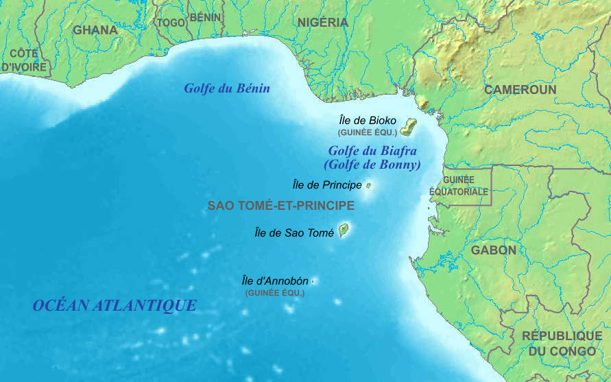 Map in French of the Gulf of Guinea area (the Gulf actually extends further west, to just a little beyond the Ivory Coast-Liberia border)